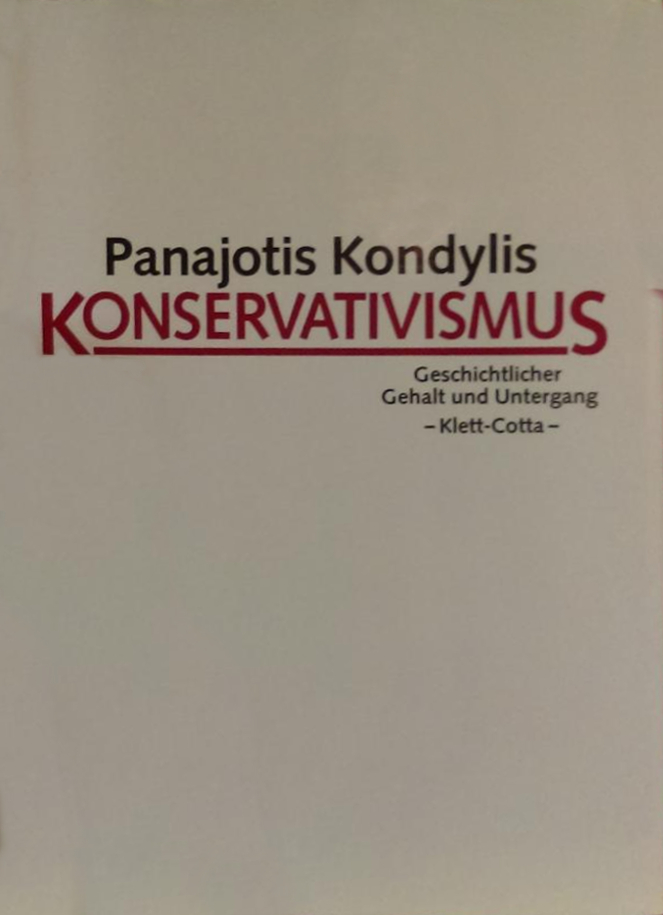 Book cover of Konservativismus. Geschichtlicher Gehalt und Untergang, by Panajotis Kondylis.